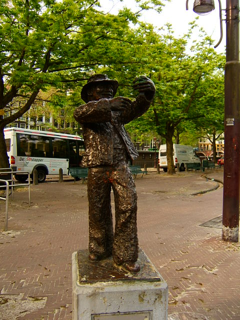 the Market Crier-Professor Kokadorus one of Amsterdam's most famous street traders